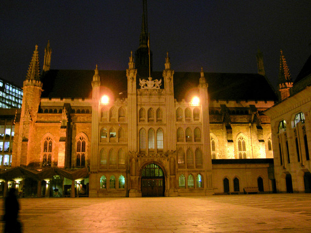 The Guildhall in the City of London